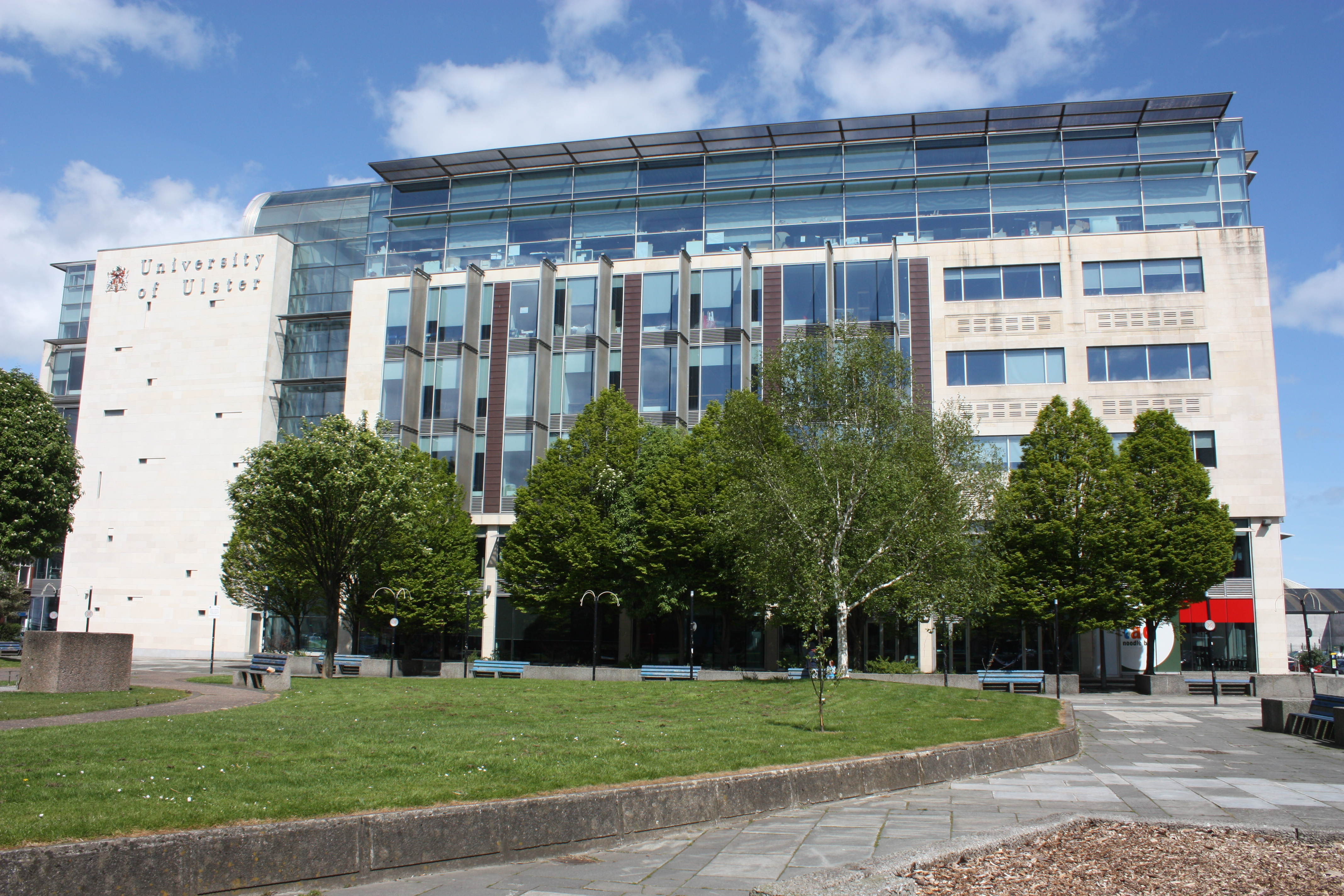 University of Ulster, Belfast Campus, York Street, Belfast, Northern Ireland, May 2012